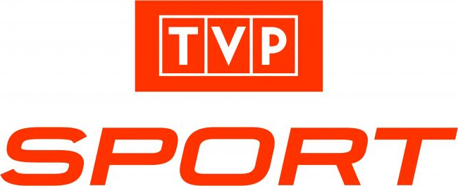 TVP Sport HD logo